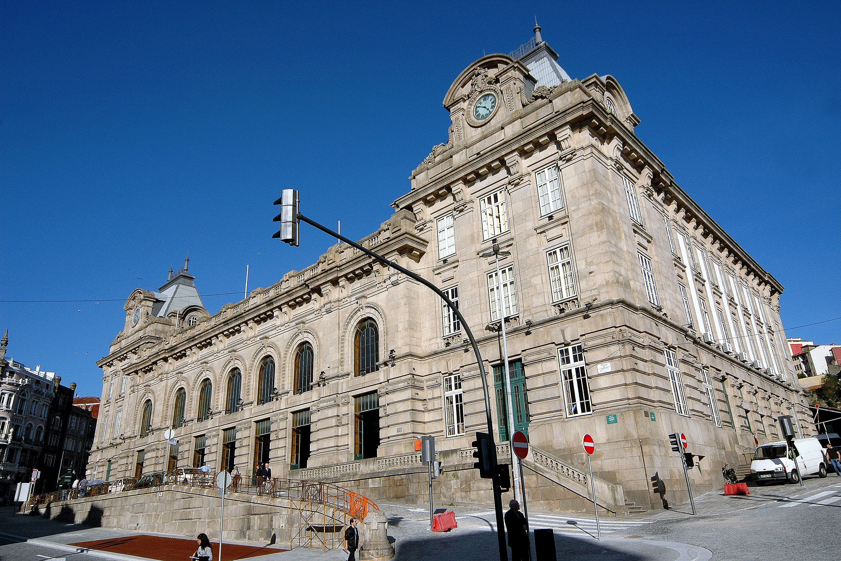 Porto São Bento train station, Porto, Portugal